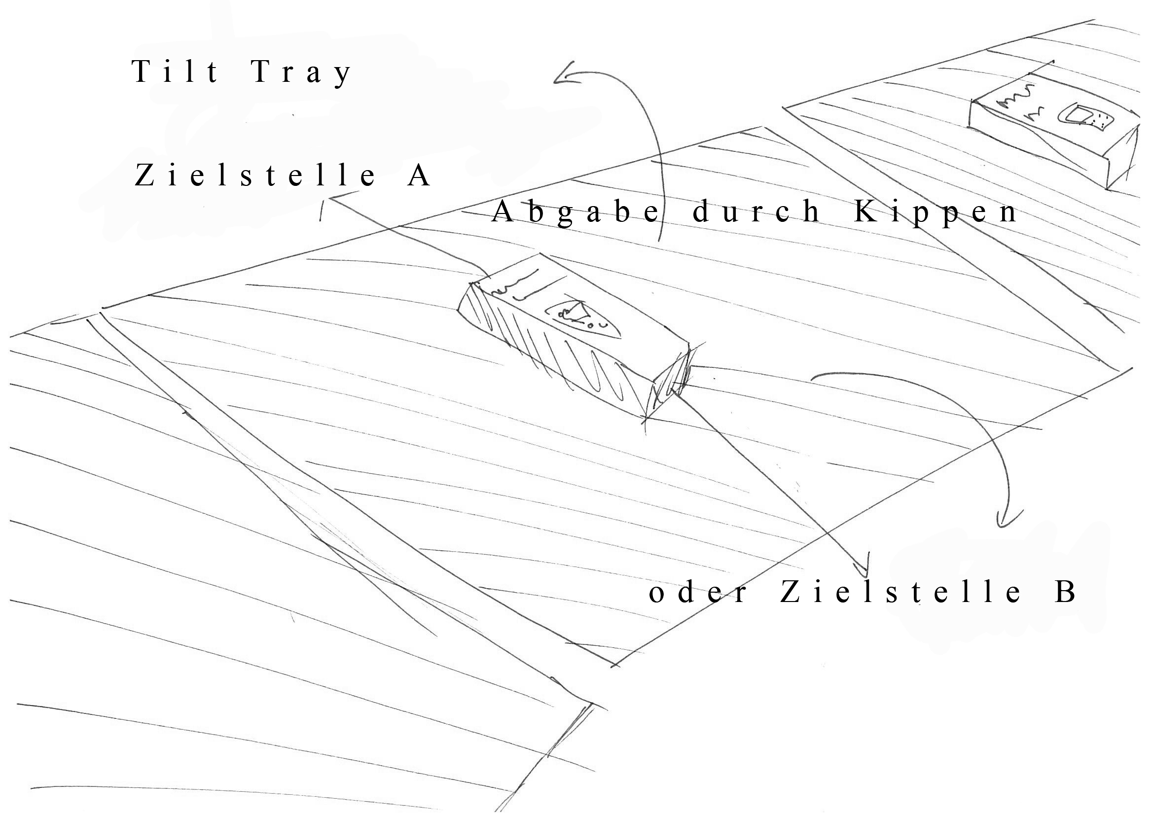 Stückgutsortierung, piece sortation, tilt-tray-sorter